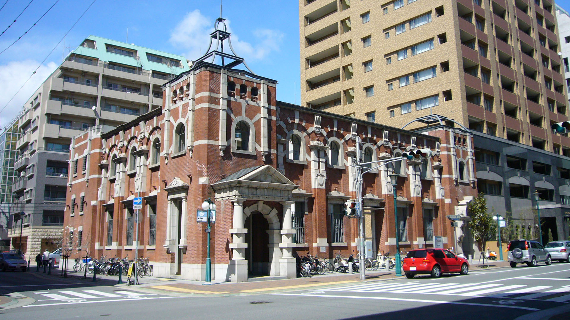 Minato Motomachi Station in Kobe, Japan